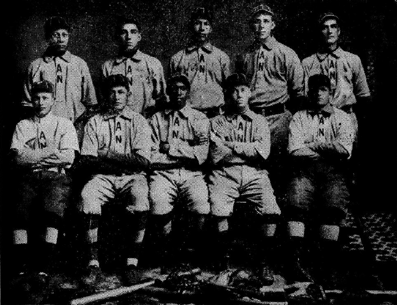 A very widely published photo of the All Nations Baseball team. The photo was taken prior to 1914 and was used by many newspapers all over the upper midwest of the United States from 1913 to 1917, and possibly as late as the 1920s when the All Nations toured again as a farm league team for the Kansas City Monarchs.